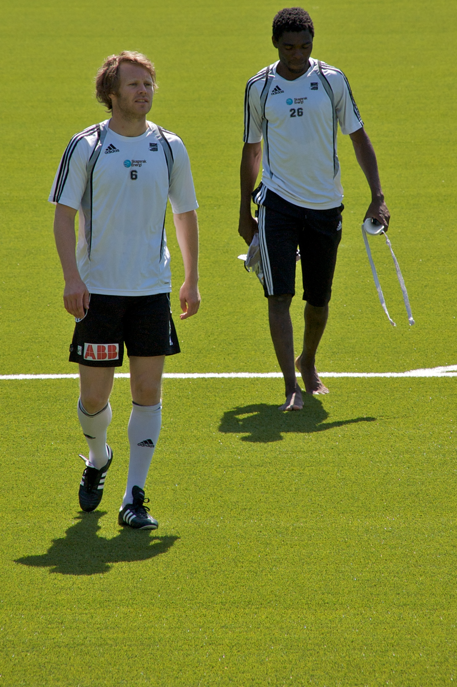 Football players Simen Brenne and Chukwuma Akabueze (Odd Grenland).